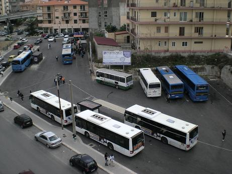 Bus station in Ragusa, Sicily.